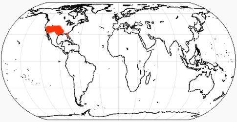 Canis lepophagus range based upon fossil finds